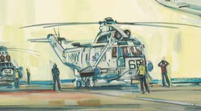 Helicopter 66, portion of a painting by Tom O'Hara, commissioned by the Smithsonian Institution. Image commissioned and owned by an agency of the United States government.